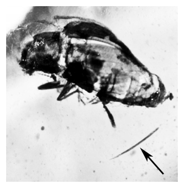 An Early Cretaceous Myanmar amber entomopathogenic nematode, Proheterorhabditis burmanicus (arrow), adjacent to its beetle host.